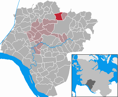 This map shows the area of the municipality Peissen in the Kreis (district) Steinburg, Schleswig-Holstein, Germany.